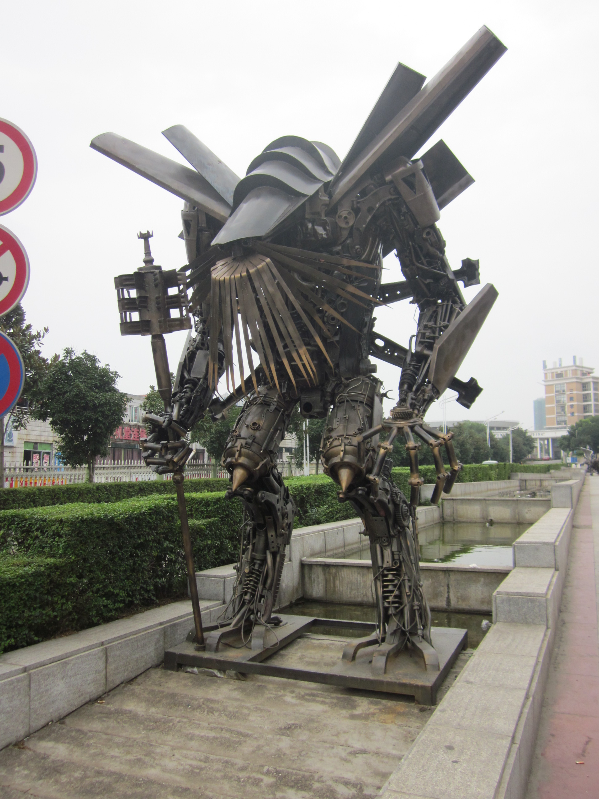 A replica of Jetfire, located in Hunan International Economics University.